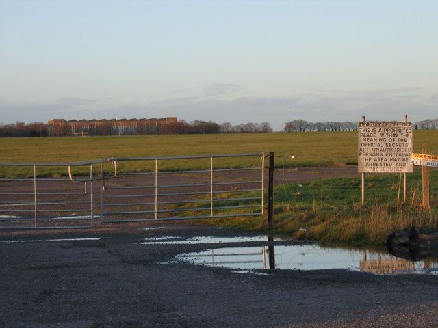 South Cerney Airfield South Cerney Airfield is nowadays part of an army base. The field is used for parachuting using light aircraft, and a practice drop zone for Hercules transport aircraft from RAF Lyneham. The Army Parachute team the Silver Stars are based here.